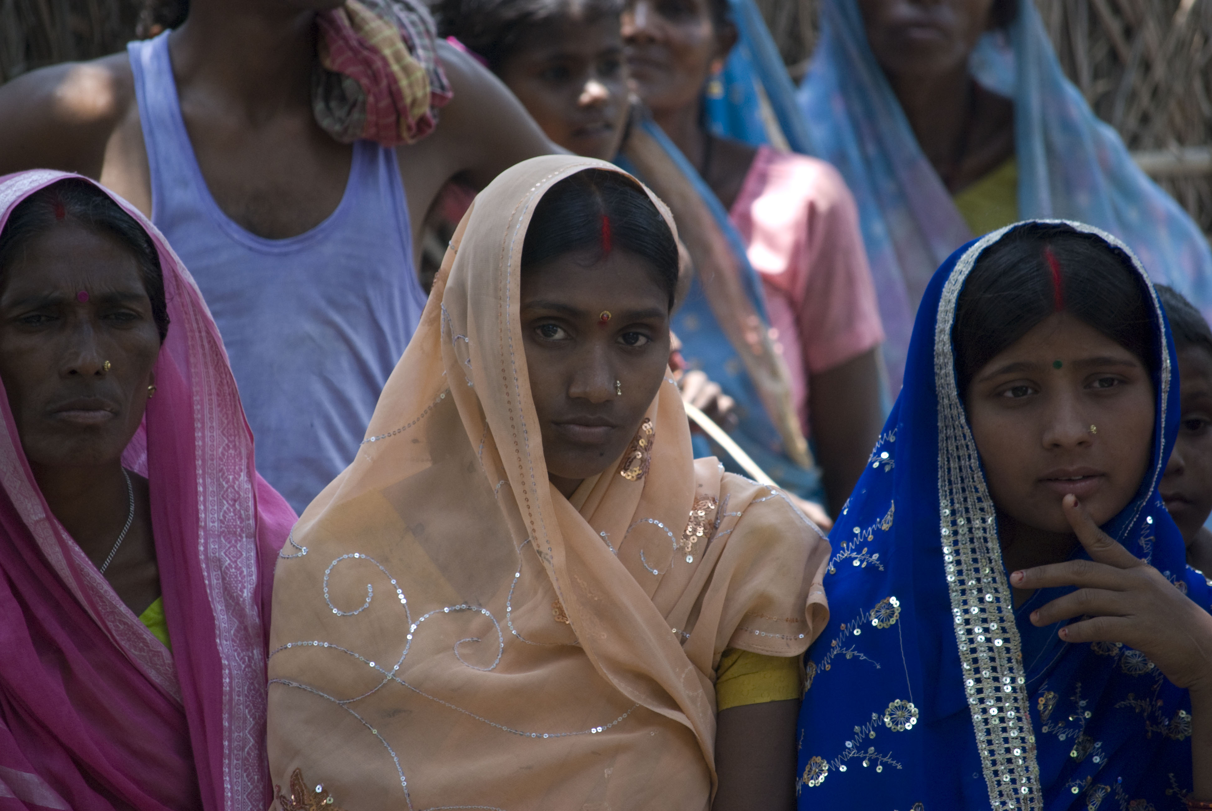 Women in Vaishali district, Bihar, India